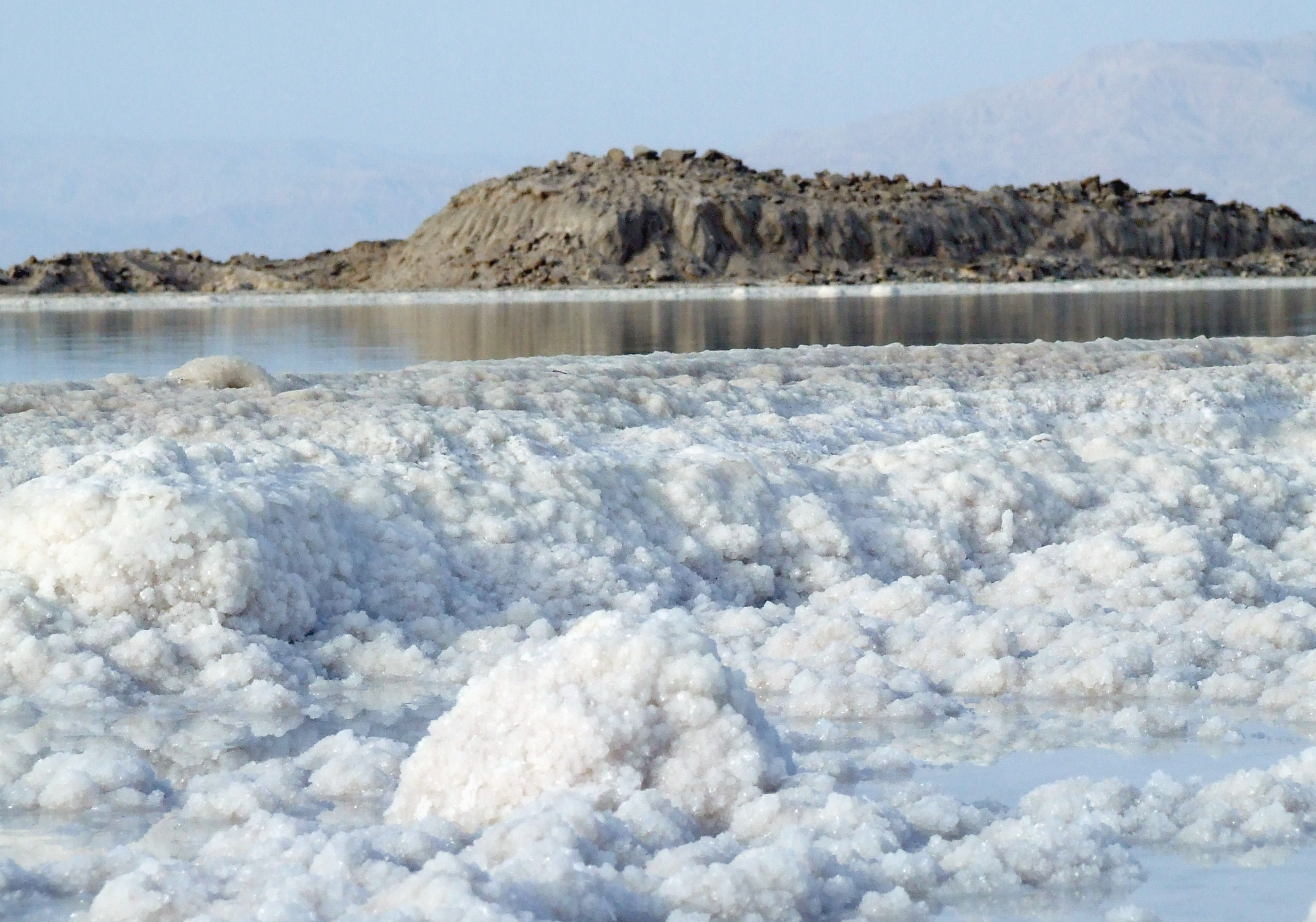 dead sea, Geography of Israel